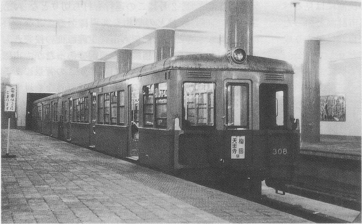 Osaka Municipal Subway #308. taken in 1938.